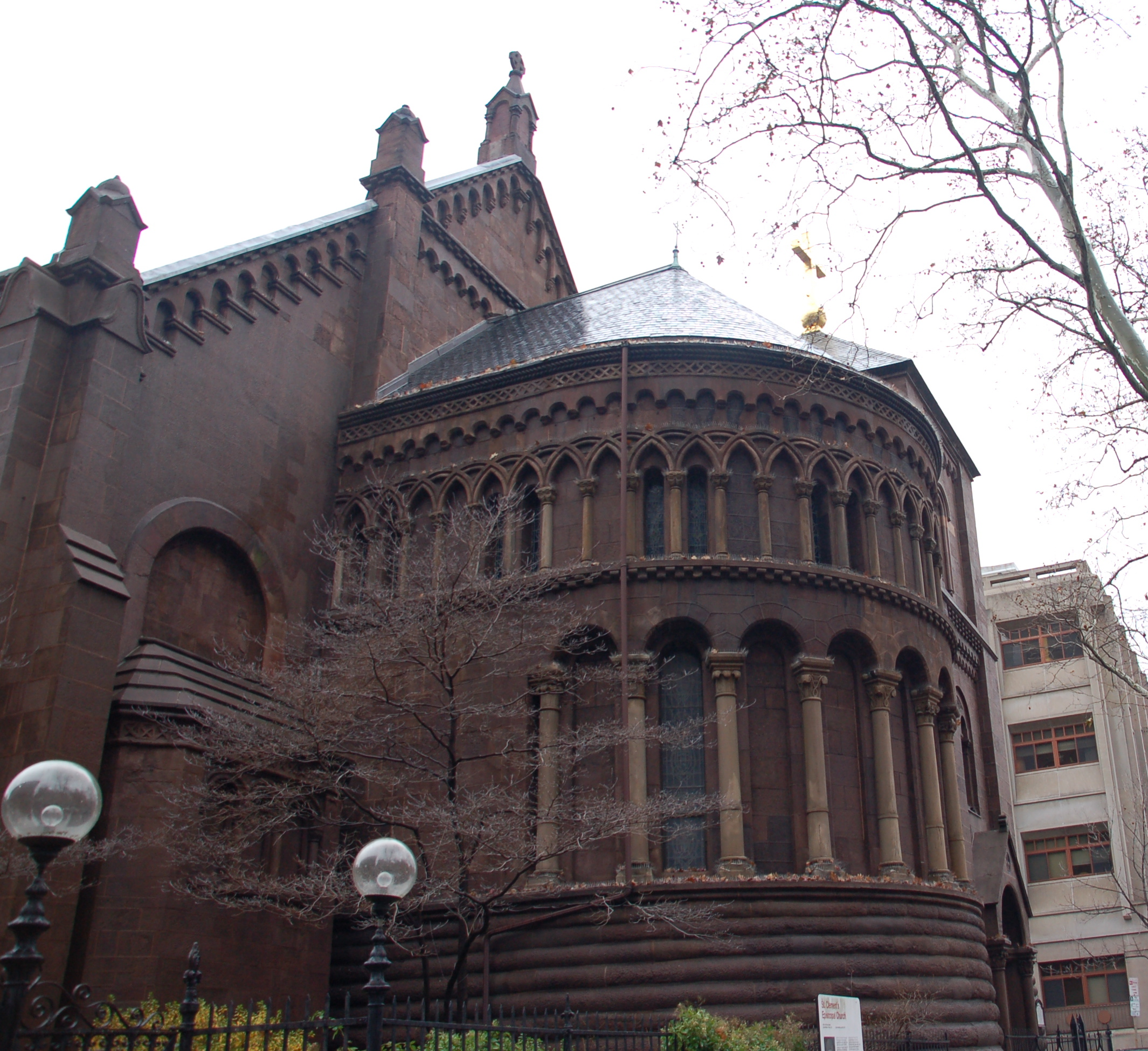 The exterior apse of Saint Clement's Church, Philadelphia viewed from 20th Street.